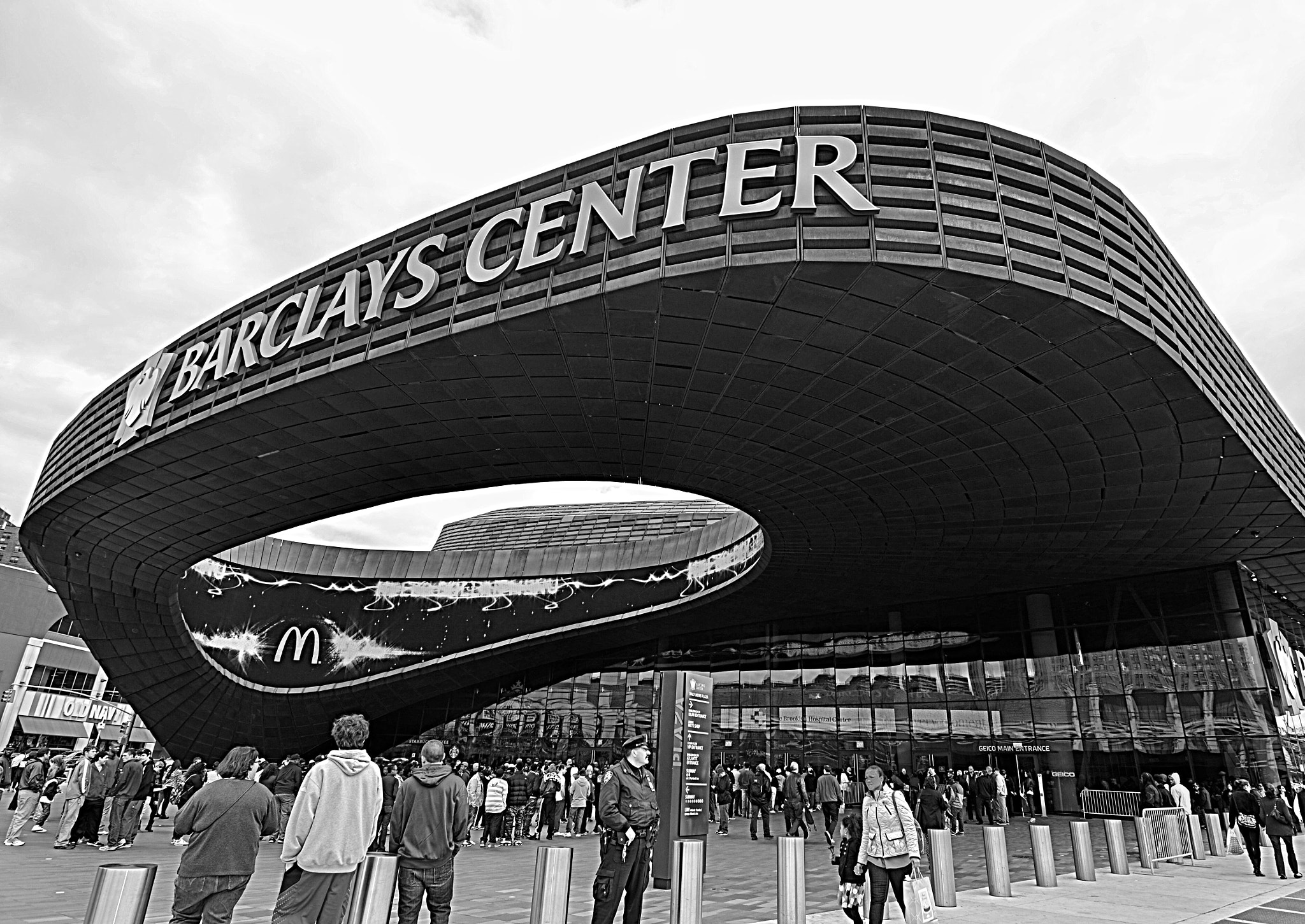 500px provided description: Jordan Brand Classic 2013. Barclays Center, Brooklyn, NY [#NY ,#Brooklyn ,#Jordan Brand Classic 2013. Barclays Center]